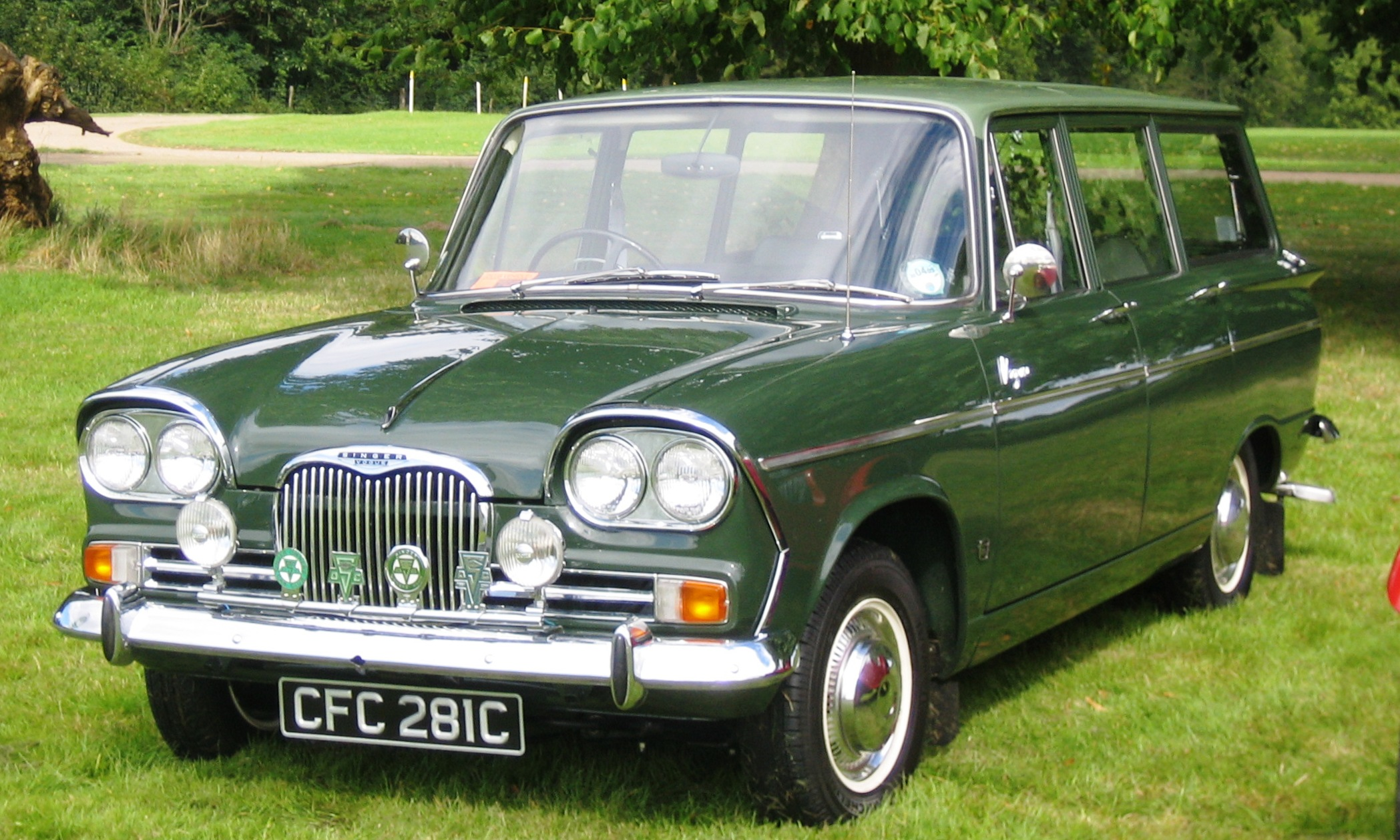 Singer Vogue estate at a Classic Car Show in Hertfordshire